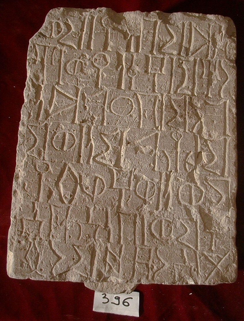 Some of the antiques in the national museum of Yemen (in Sana'a).